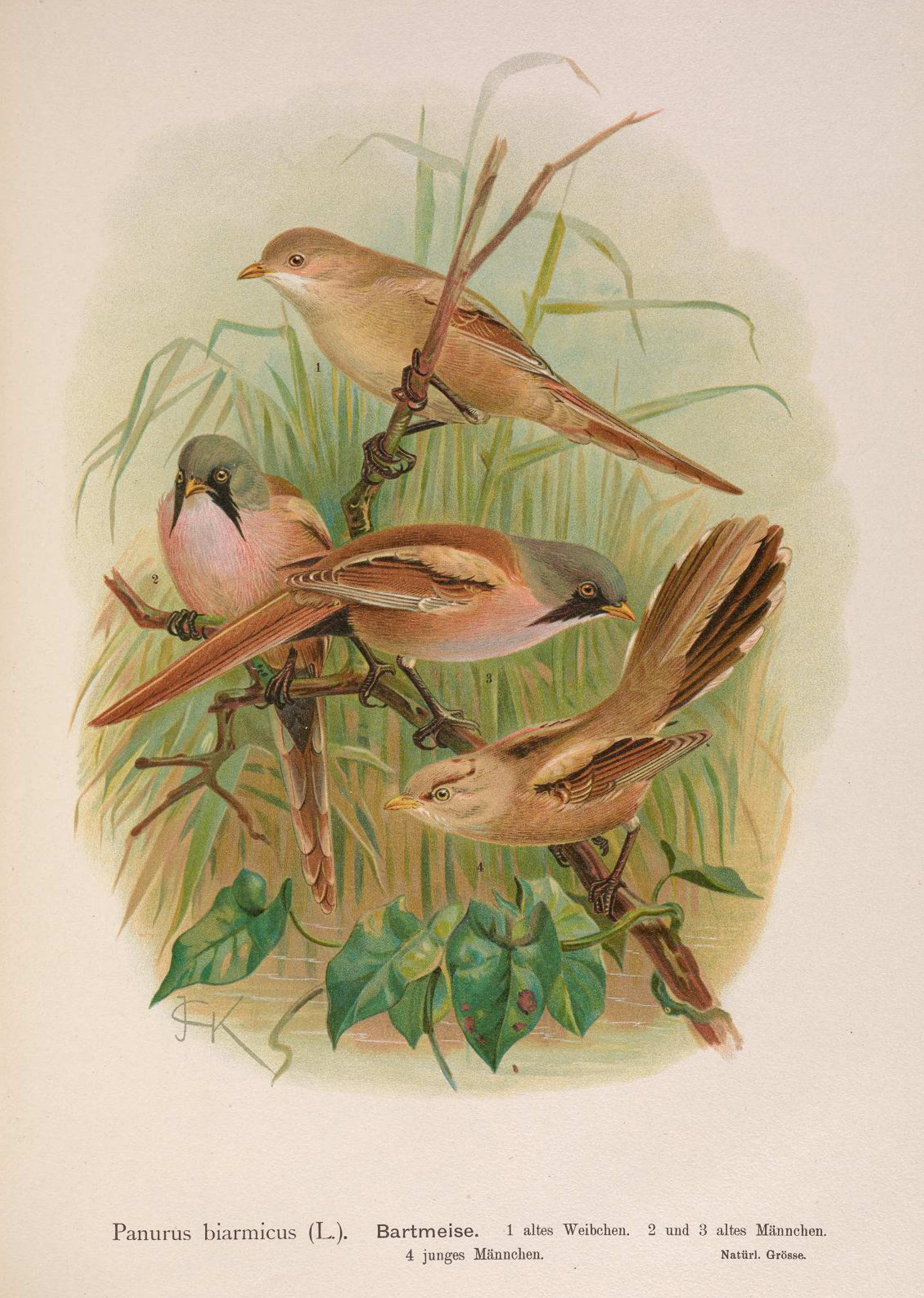 Panurus biarmicus (L.), Bearded reedling: 1. old female, 2 and 3 old male, 4 young male. Natural size.